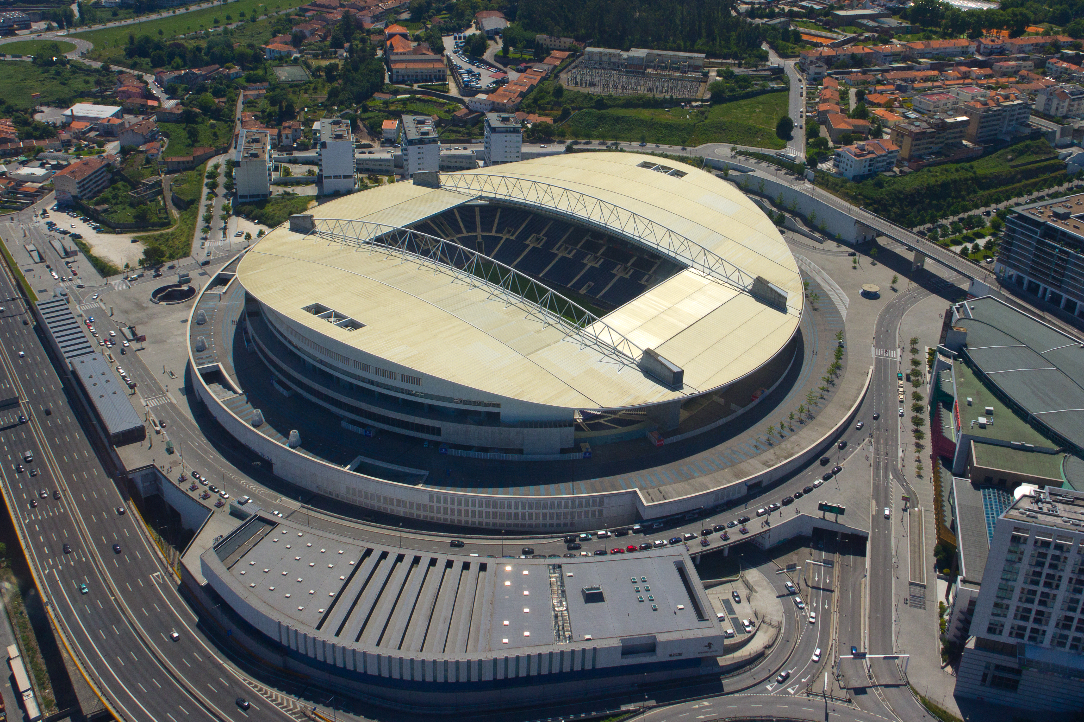 Aerial view of Estádio do Dragão (Stadium of the Dragon), home of FC Porto, Portugal